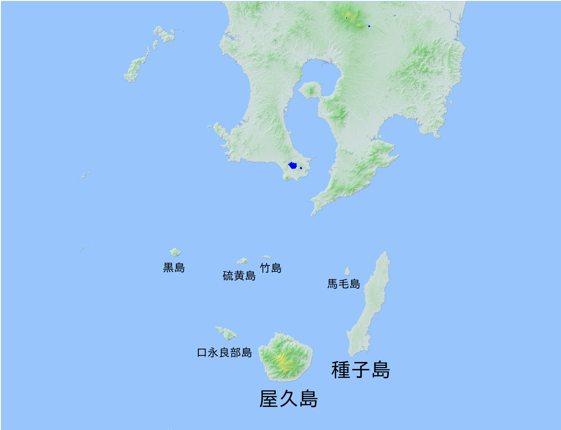 map of Osumi islands with japanese caption